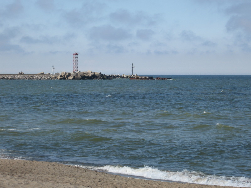 I took this picture.